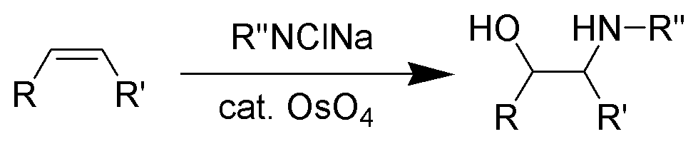 Description: Reaction scheme of the Sharpless oxyamination. Author, date of creation: selfmade by ~K, 20 August 2006. Source: - Copyright: Public domain. (PD) Comments: high-resolution b/w PNG; ChemDraw / The GIMP.